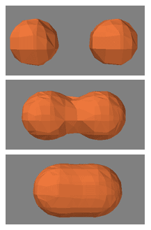 This images shows two metaballs in action. It has been created to illustrate a wikipedia article.